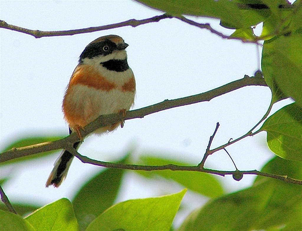 Black-throated Tit (Aegithalus concinnus).